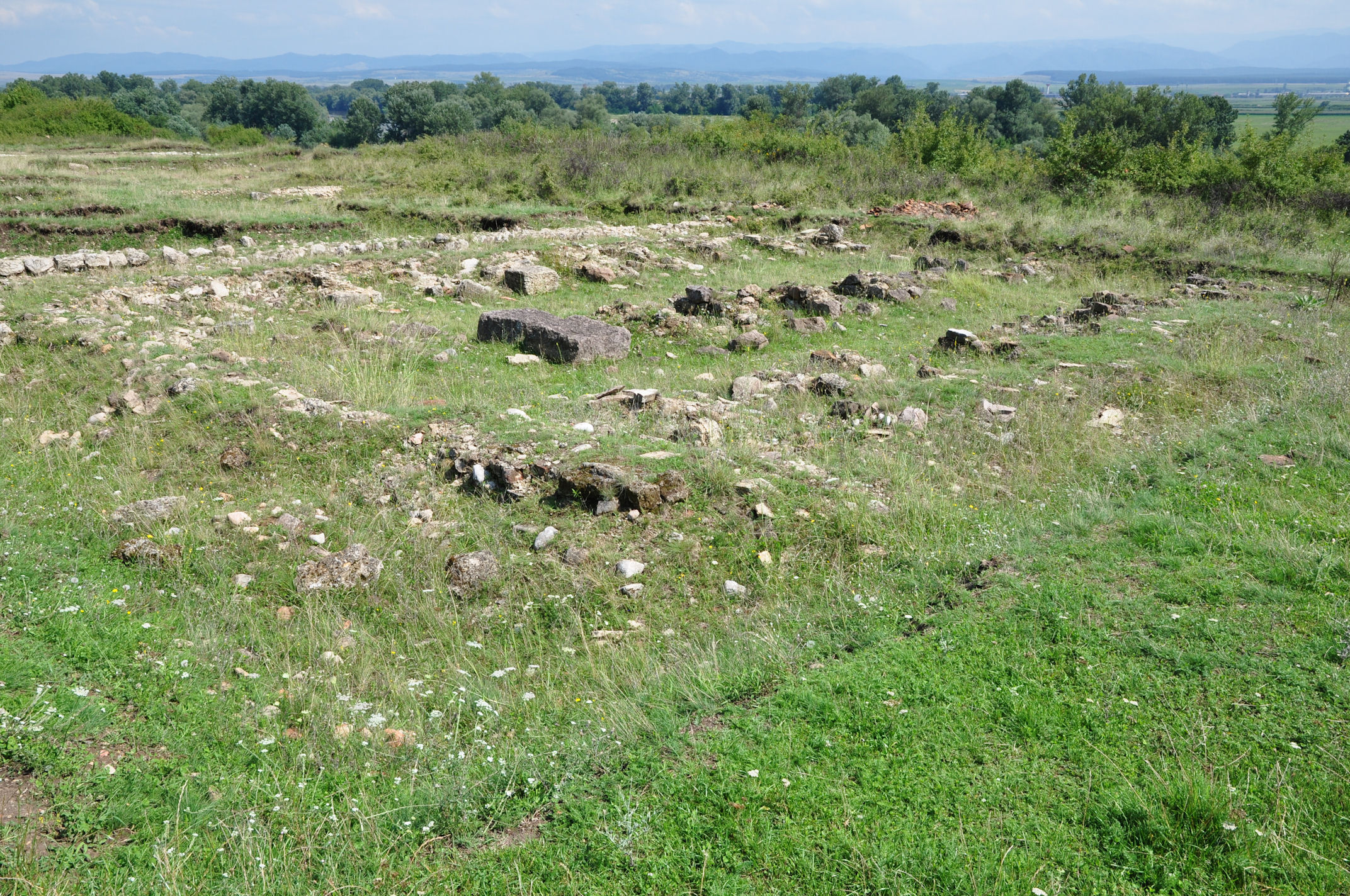 Castra of Cigmău